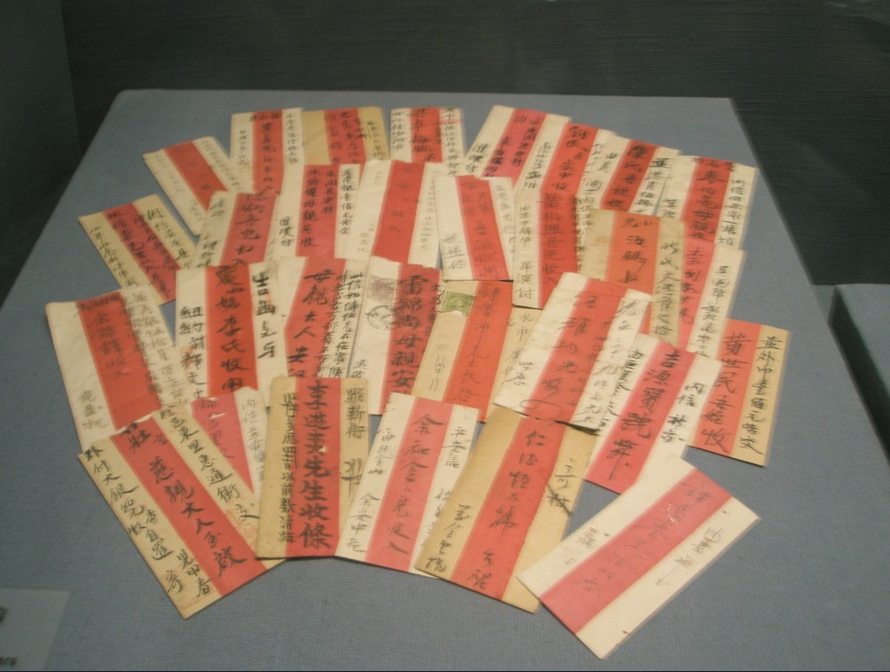 Overseas Chinese Remittance